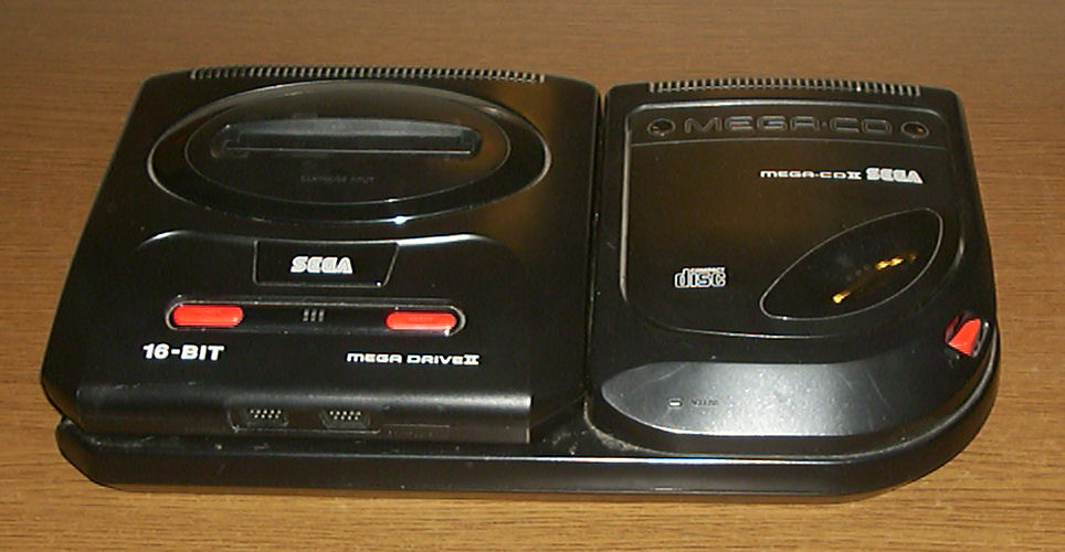 A PAL Mega Drive II combined with a PAL Mega-CD II.